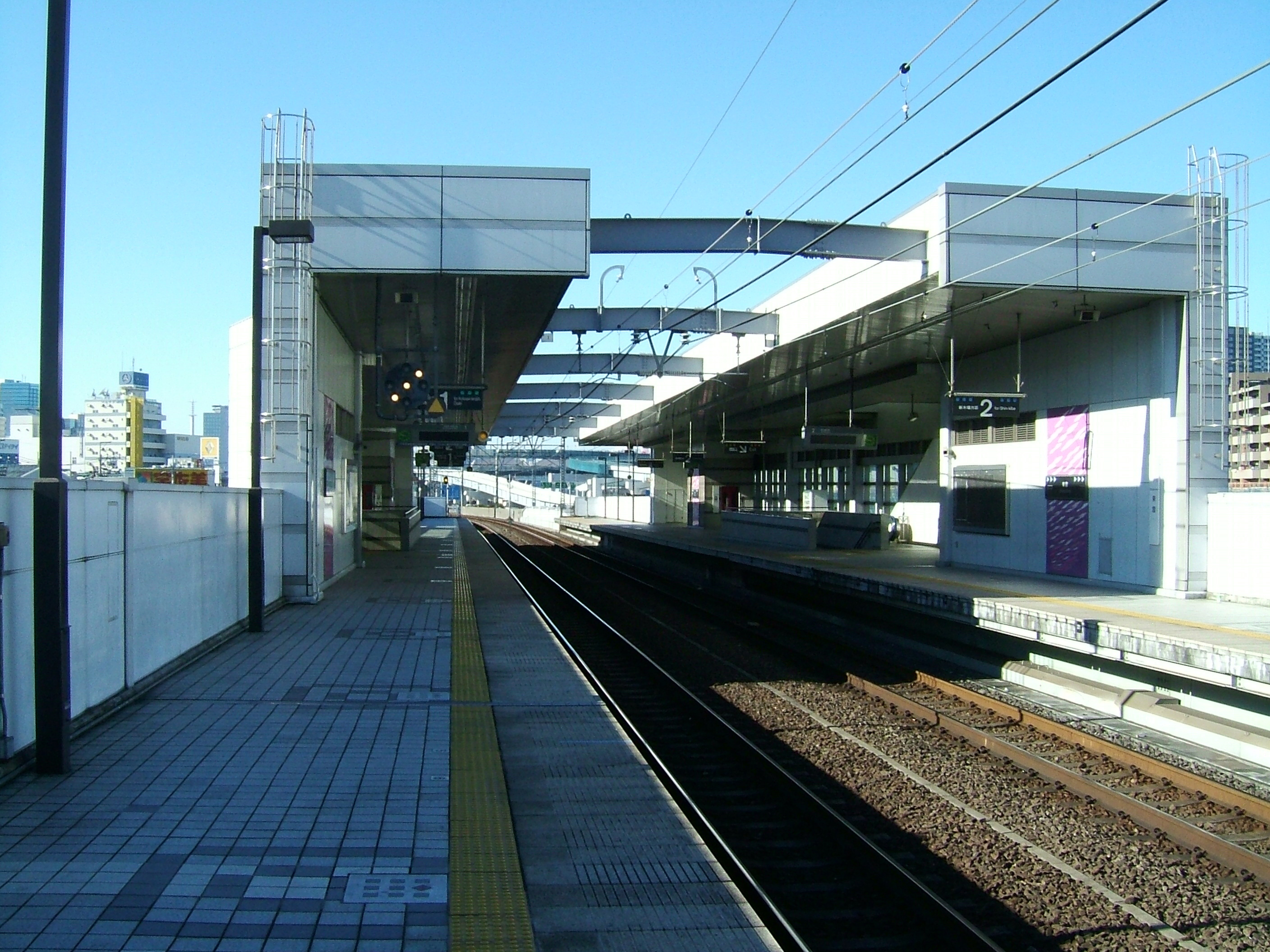 The platforms at Shinonome Station on the Rinkai Line